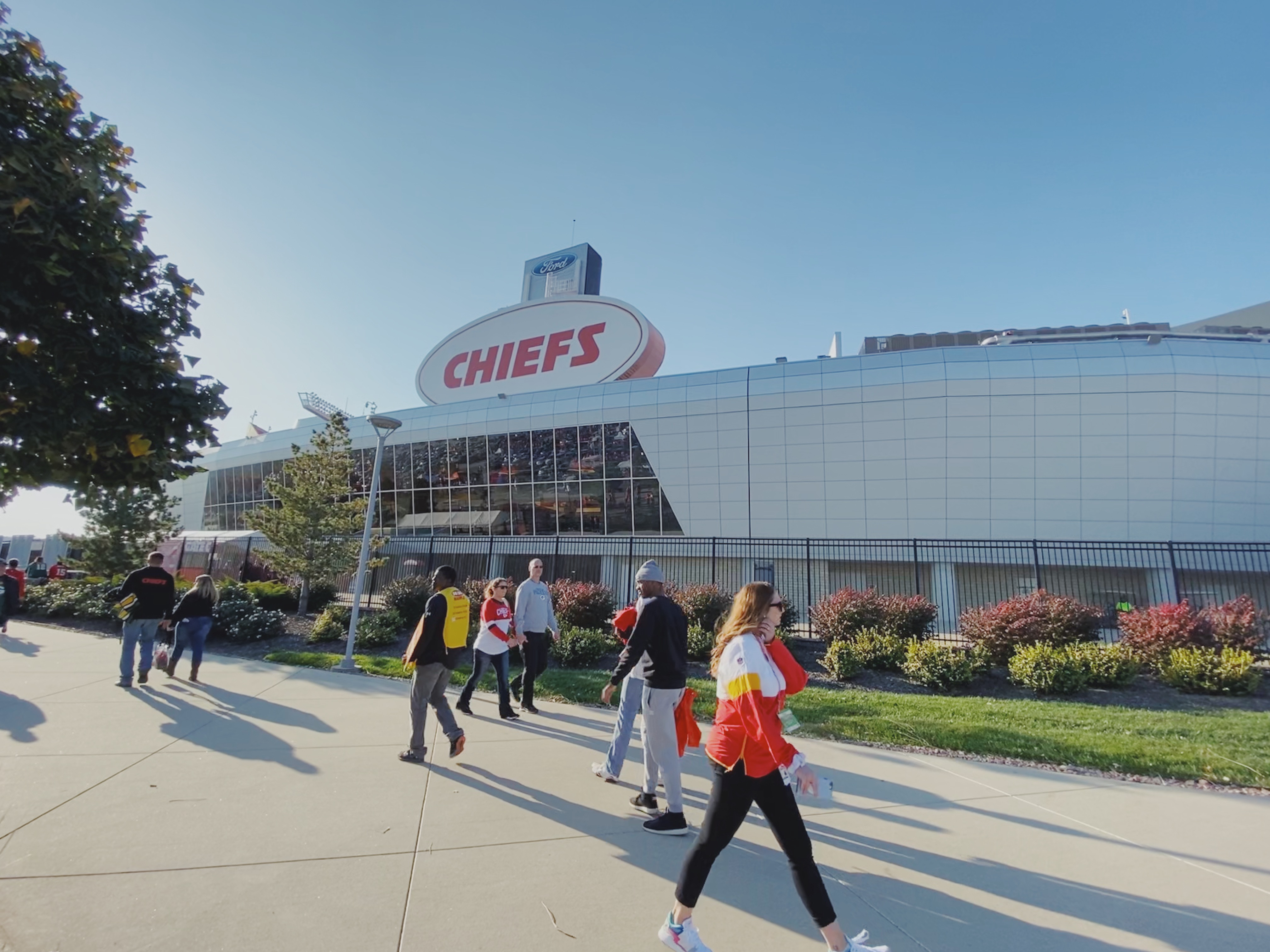 Arrowhead Stadium (October 27, 2019)